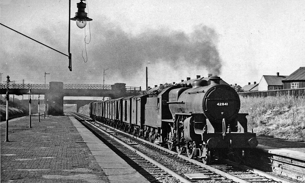 An Up Fast freight passes Farington Station. View northward on the West Coast Main Line. The Class C freight is headed by Hughes/Fowler 5P4F 2-6-0 No. 42841 and is running on the Up Fast line. In 1957 Farington station was still intact. See also SD5425 : Return holiday express at Farington and other photographs.